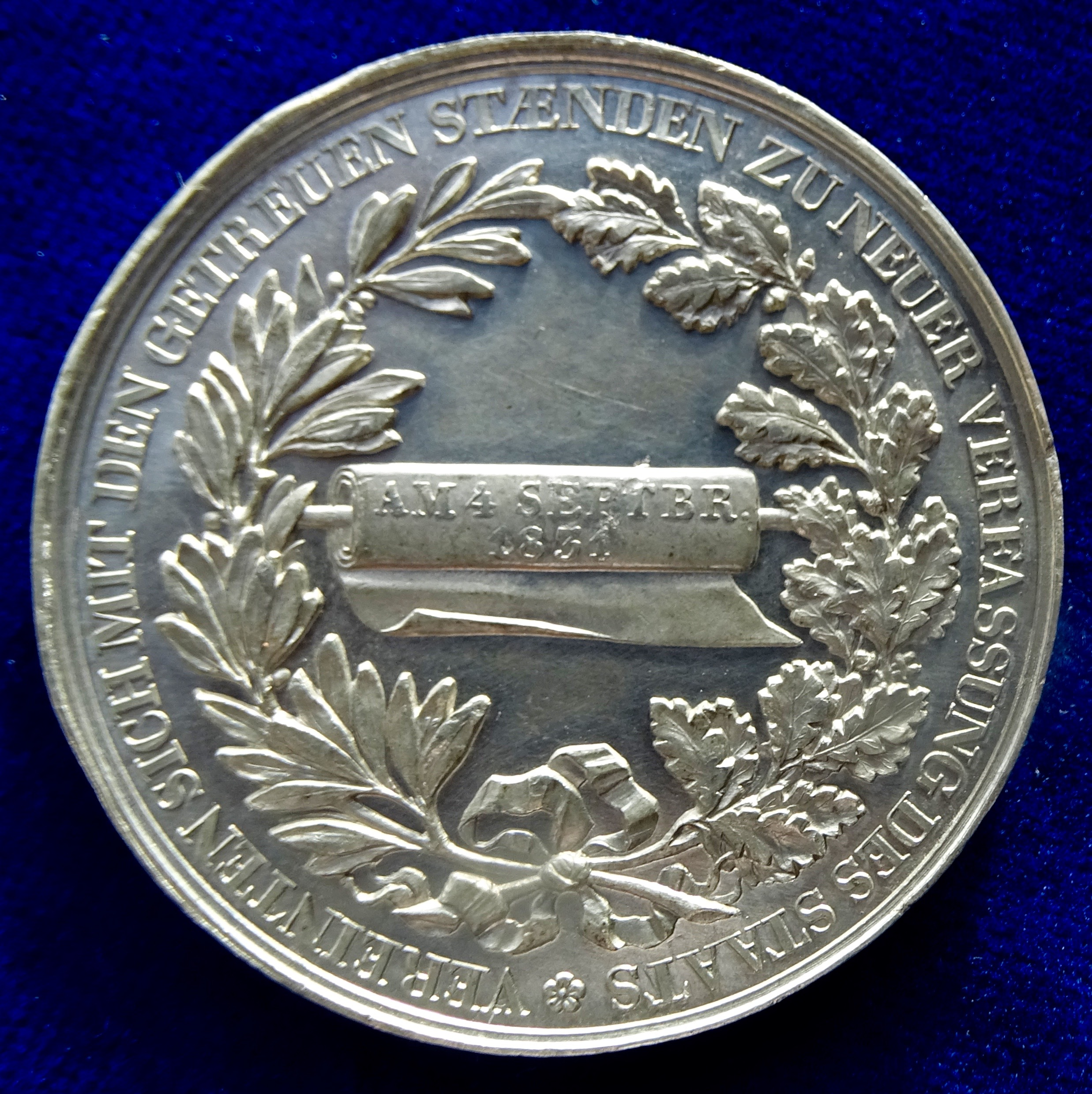 Saxony 1831 Pewter Medal for the 1st Constitution. Medallion d. = 47 mm. Anton, King of Saxony 1827 - 1836 & Regent Friedrich August 1830 - 1836 Conjoined heads r., around: "ANTON KOENIG UND FRIEDRICH AUGUST MITREGENT VON SACHSEN"/ 2 lines on scroll of the Constitution: "AM 4. SEPTBR. 1831", around: "* VEREINTEN SICH MIT DEN GETREUEN STAENDEN ZU NEUER VERFASSUNG DES STAATS *". Slg. Merseburg 2177 (Ag and Cu); Forrer III, p.196 Condition : EXTREMELY FINE+.